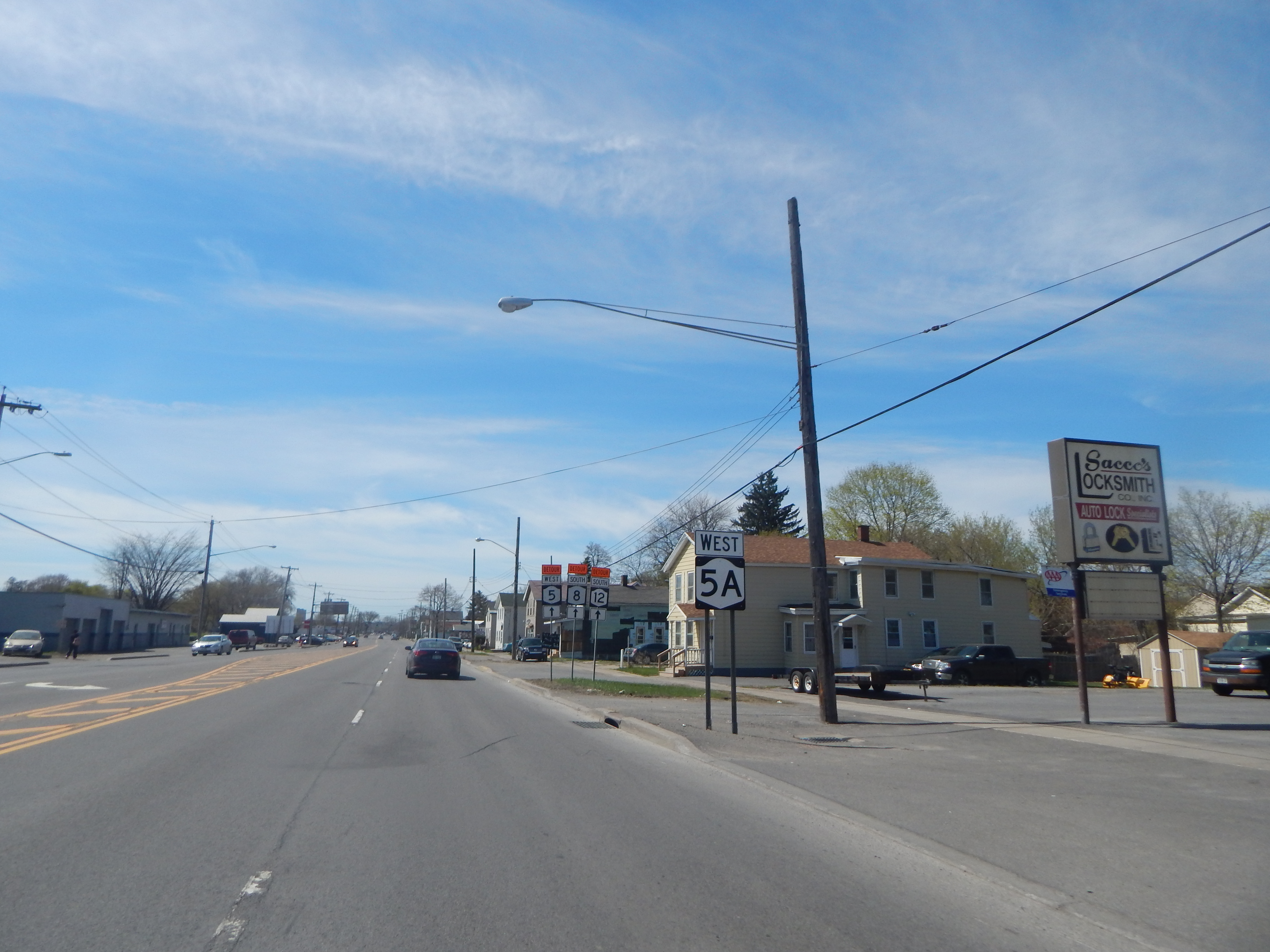 State Route 5A in Utica, New York.